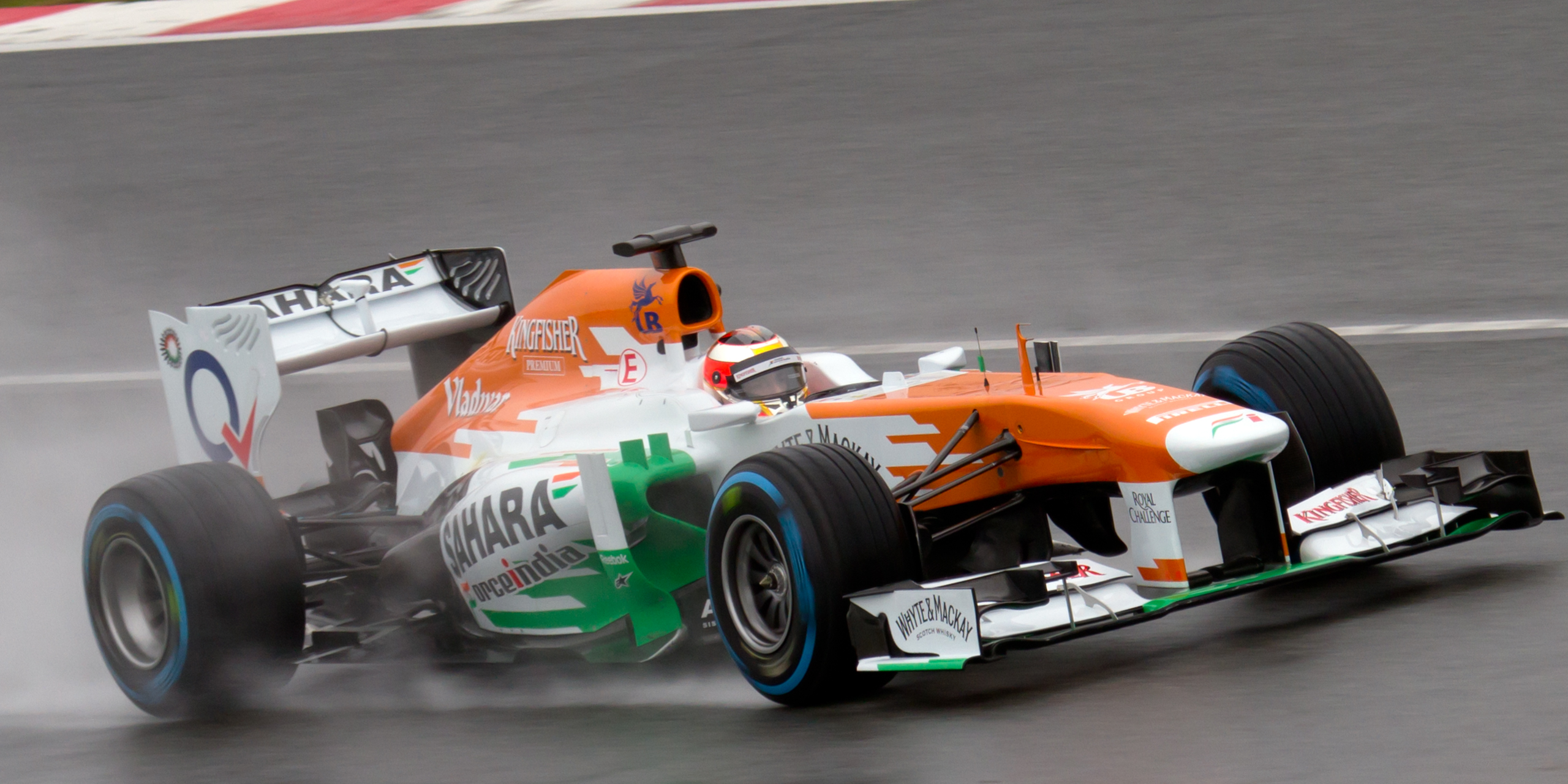 Formula One 2013 Catalonia test (19-22 February): Jules Bianchi (Force India)